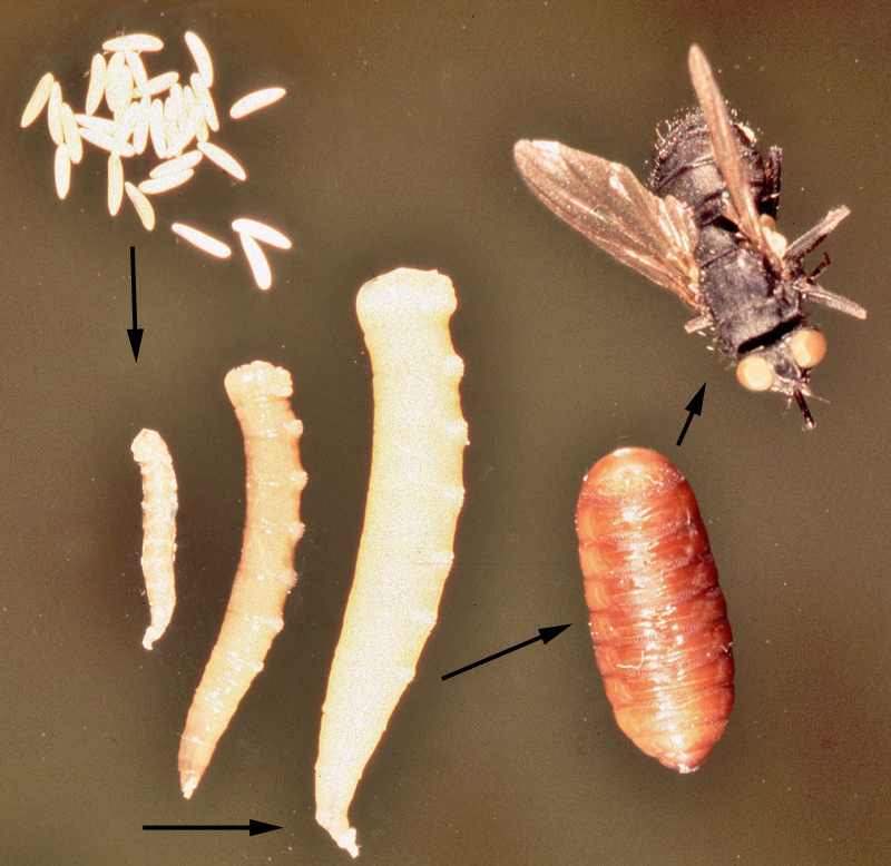 Photograph of parasitic insects of domestic animals